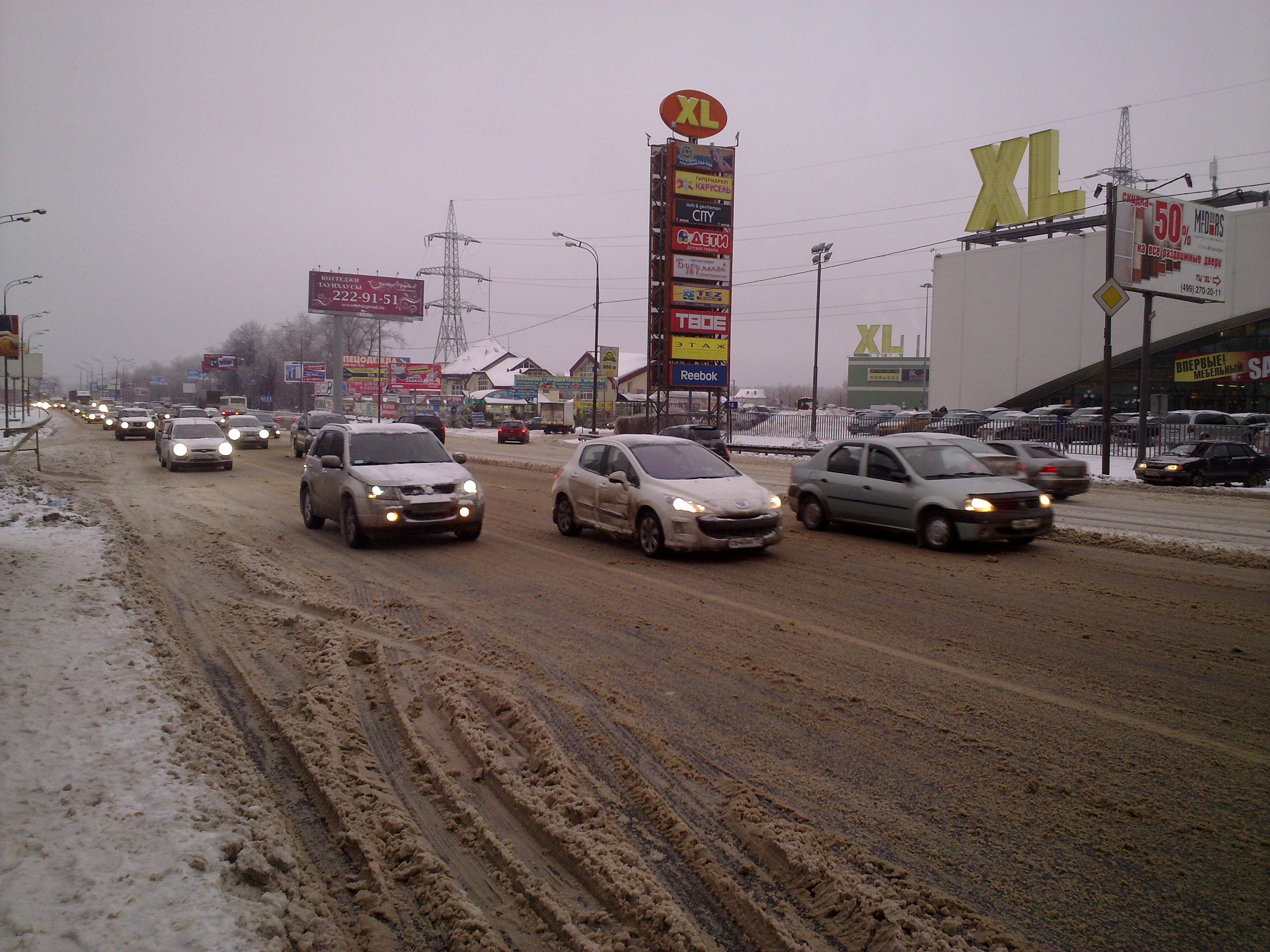 Yaroslavl highway near Moscow, in front of "XL" Shopping Mall, in winter time.